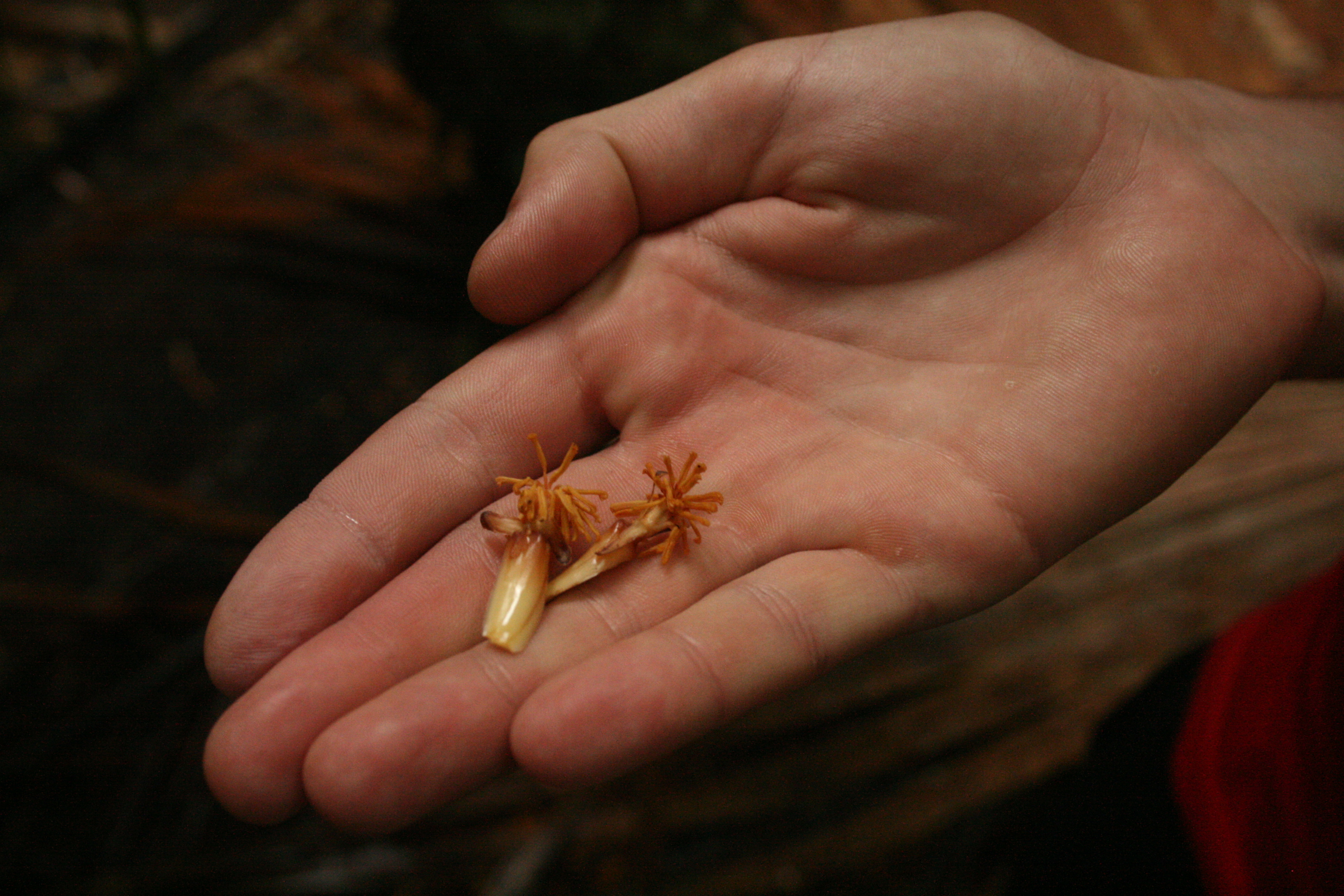 Male flowers of a Lodoicea maldivica ("Coco de mer") plant on the Seychelles islands, Mahe, Vallee de Mai